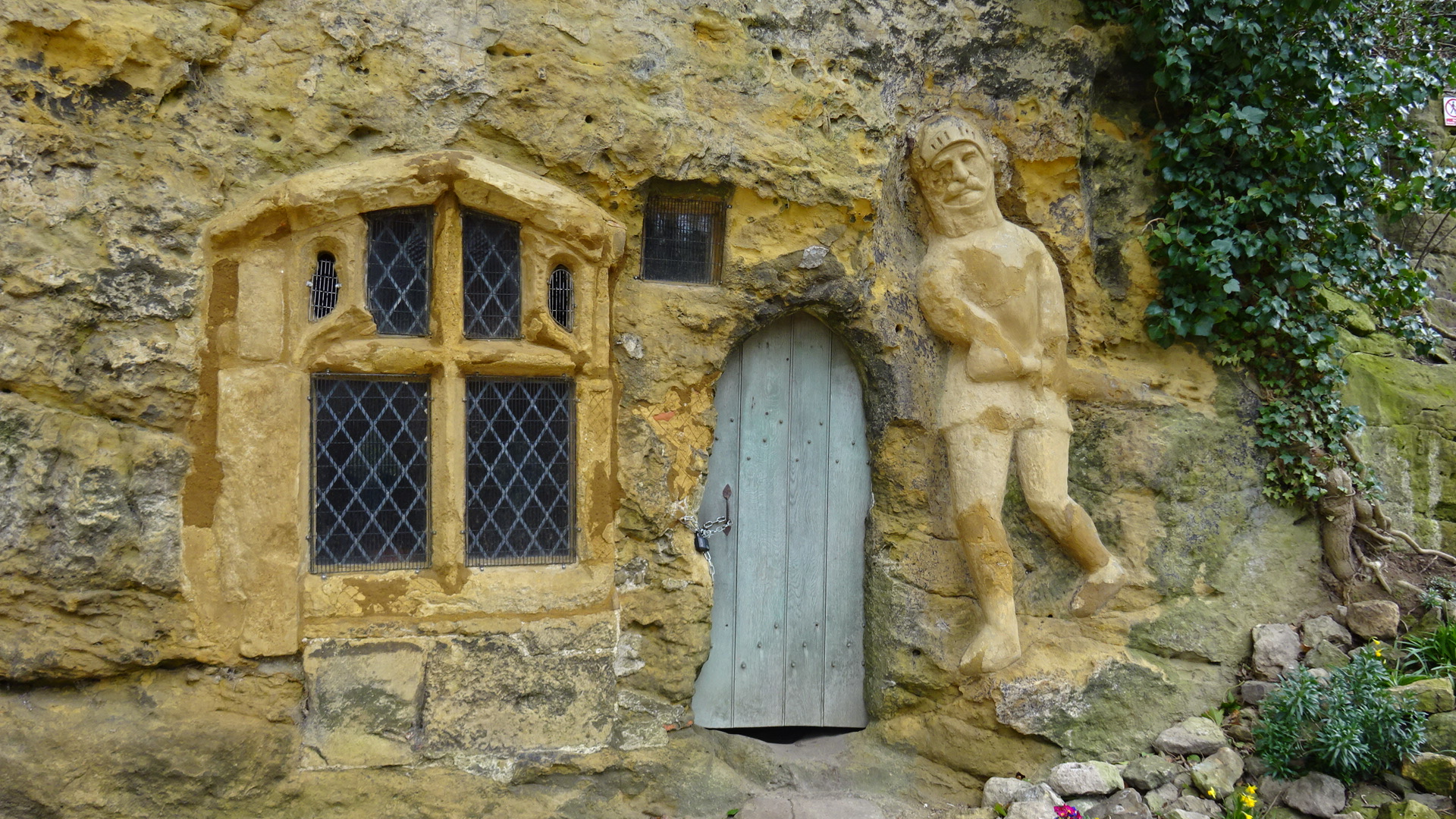 The Chapel of Our Lady of the Crag entrance, Knaresborough, Yorkshire, England. A Marian shrine. Carved knight detail.